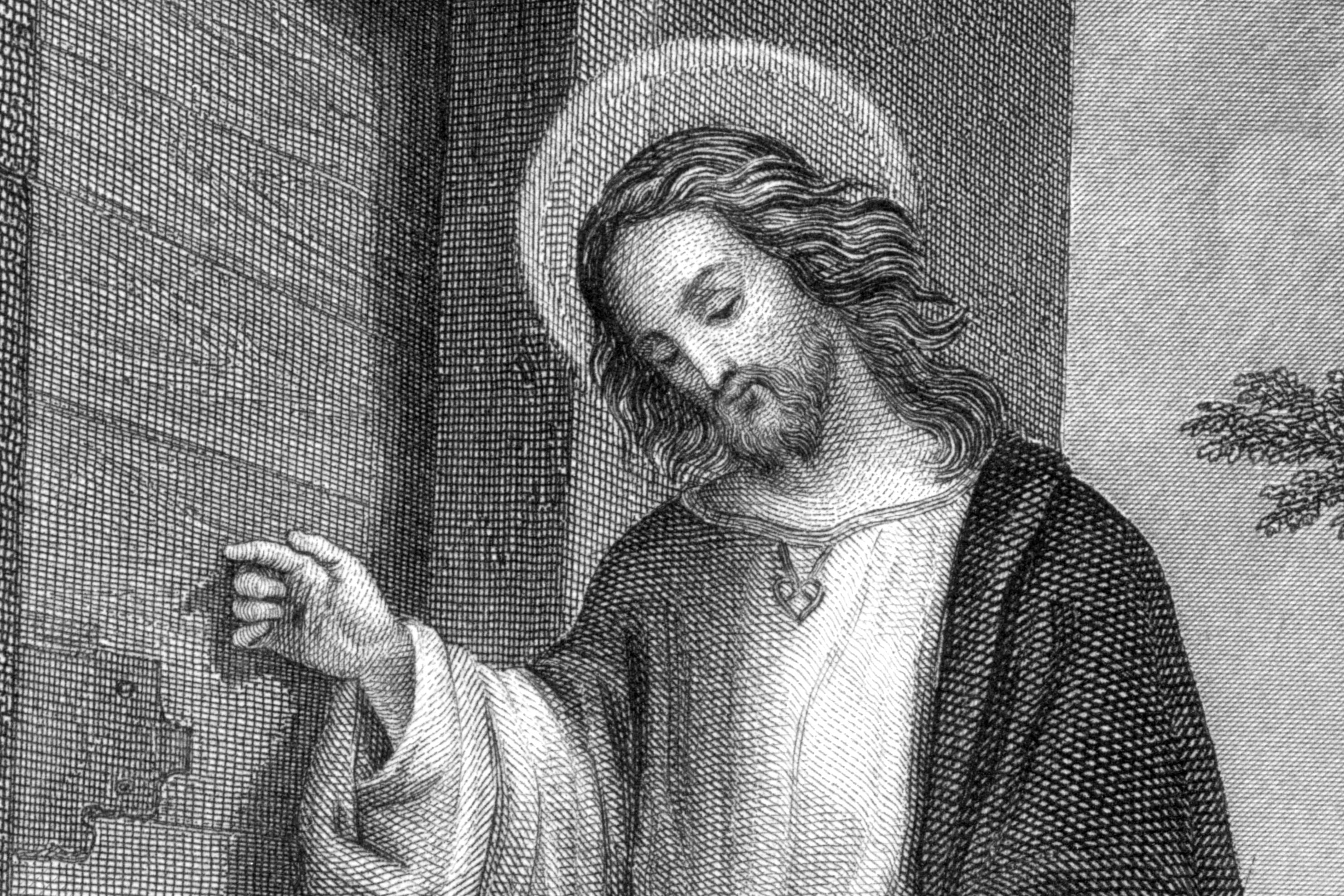 19th century steel engraving of Jesus Christ. The distance between the two nails in the door detail down on the left is roughly 3.5 millimeters.